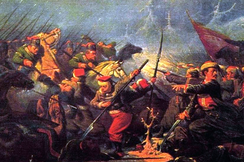 Skirmish of Polish Zouaves of Death during January Uprising